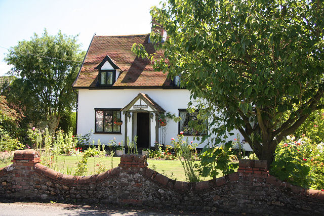 The Old Post Office, Lawshall Now converted back to a cottage, the former post office is situated near the church in the centre of the village of Lawshall.